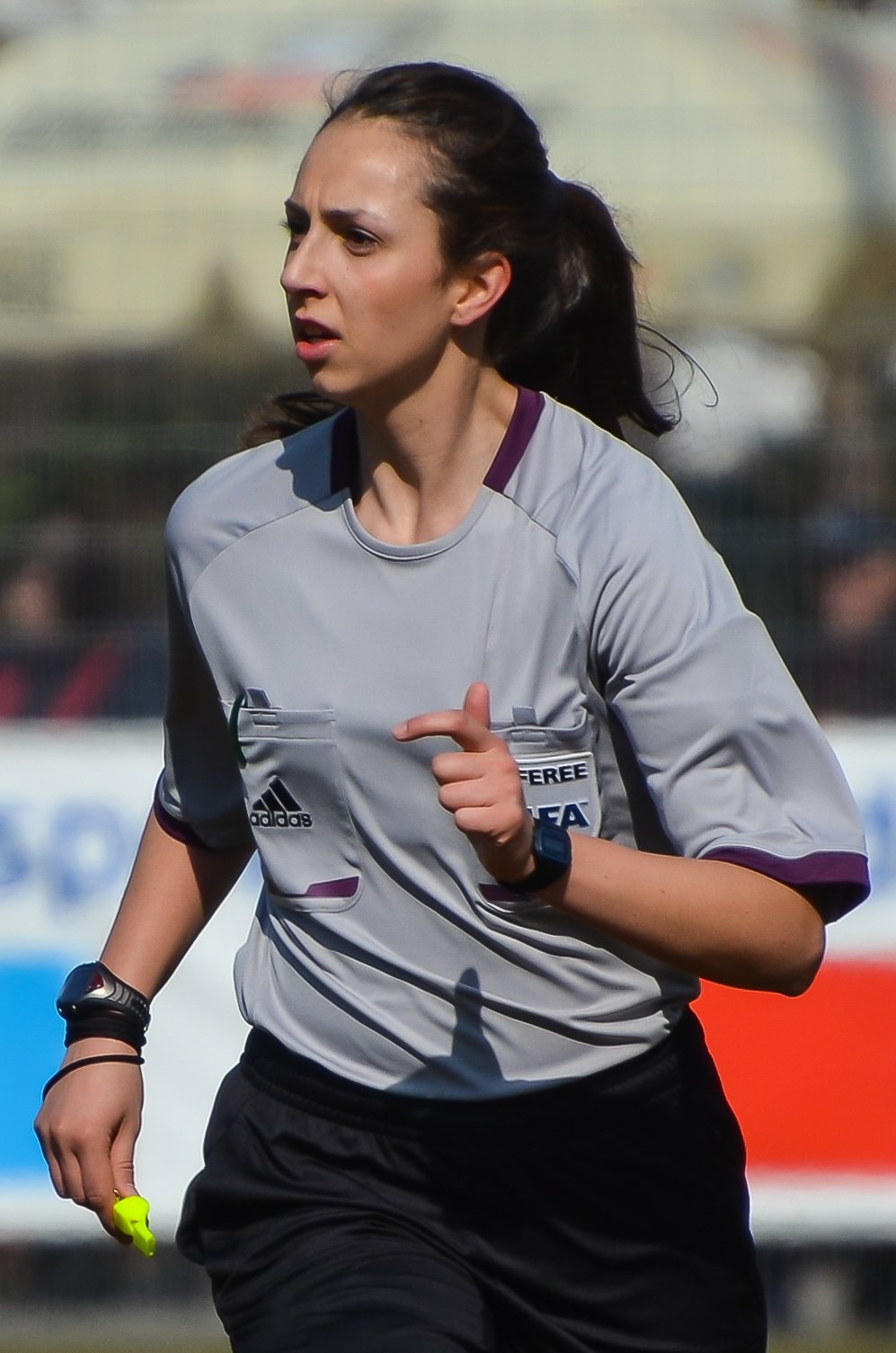 Marija Kurtes, German referee